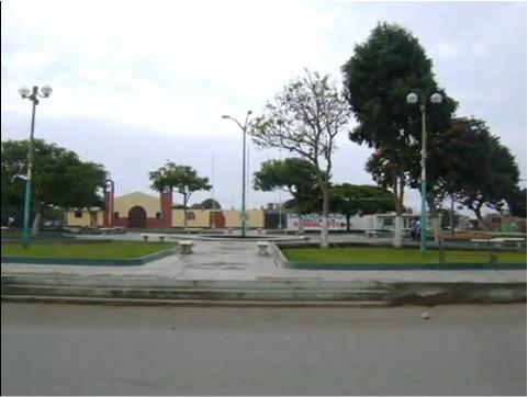 Plaza de Armas de Guadalupito - Virú - La Libertad - Perú